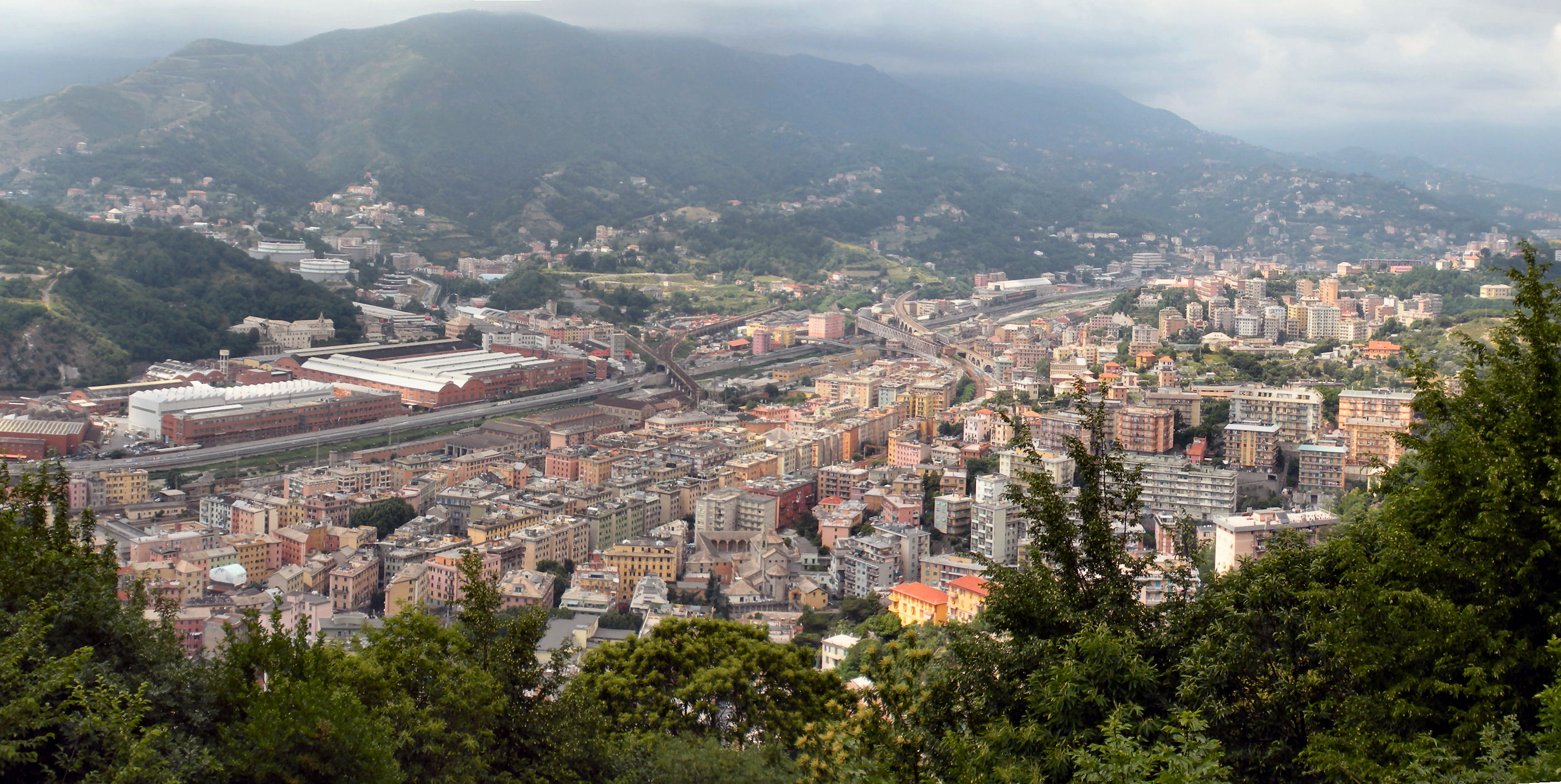 Genoa (Italy), quarter of Rivarolo, view from Fort Crocetta